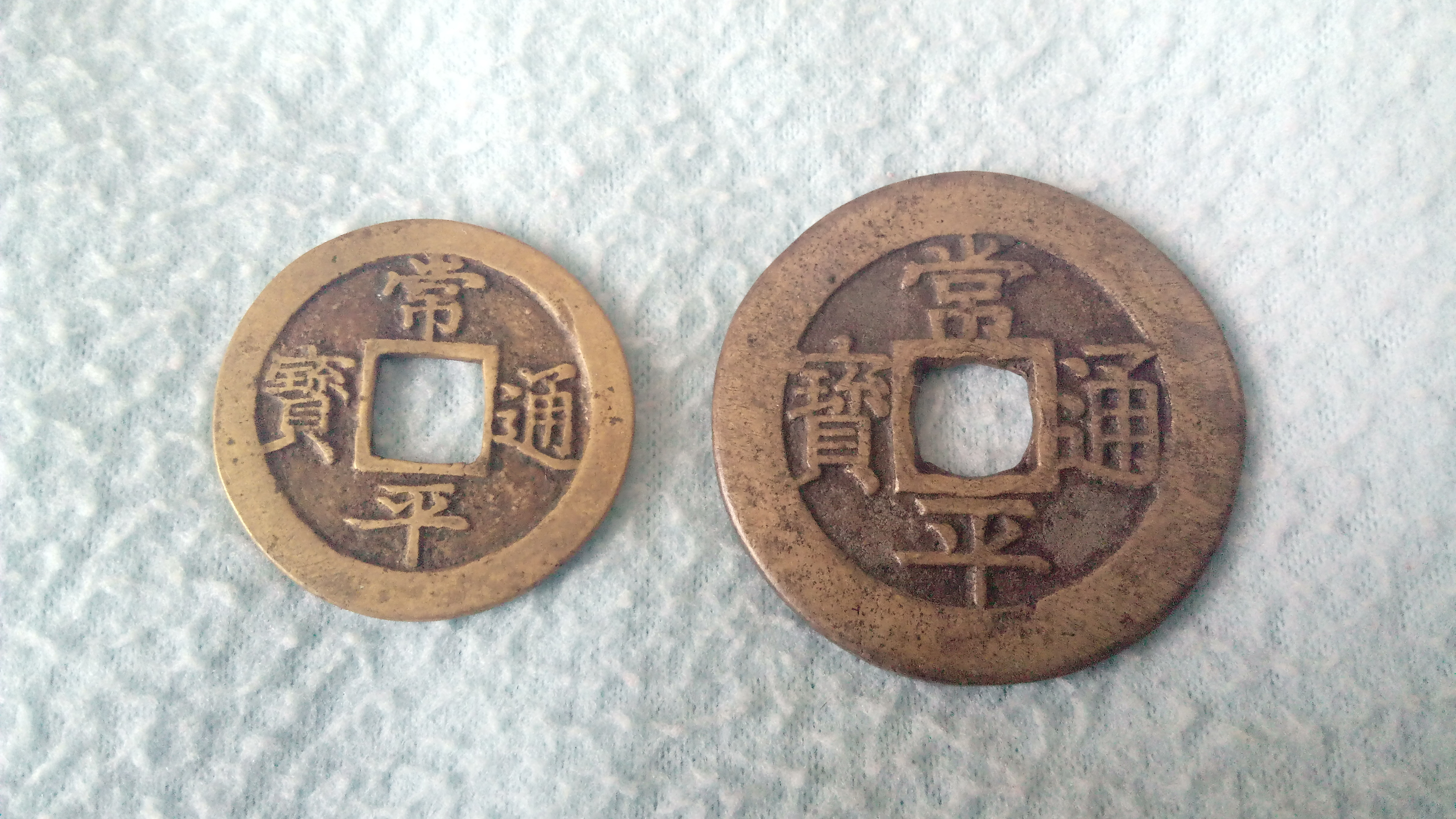 A comparison of two (2) different denominations of the Sangpyeong Tongbo cash coins issued by the Kingdom of Great Joseon.